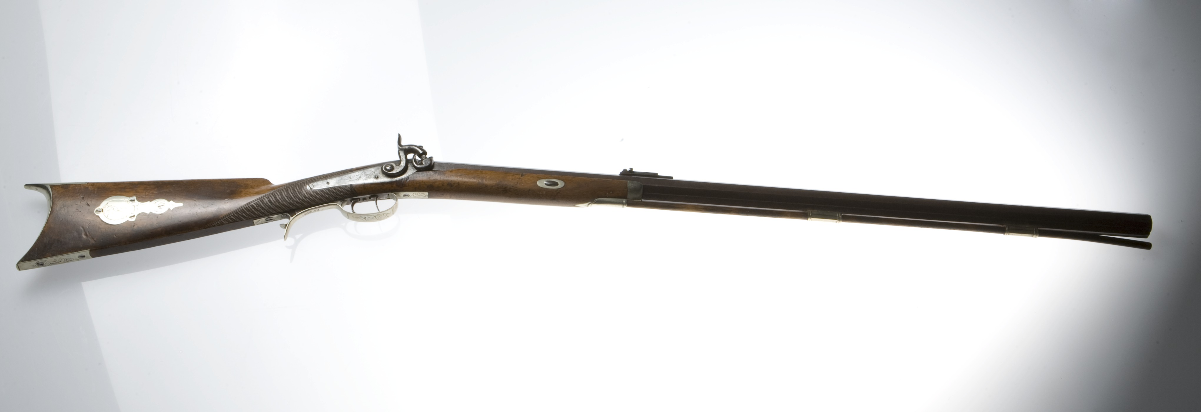 One of a thousand contract rifles supplied by St. Louis gunmaker and retailer Horace E. Dimick to Birge's Western Sharpshooters--later the Western Sharpshooters, 14th Missouri Infantry, and then later redesignated the 66th Illinois Infantry--during the Civil War. This rifle was issued to Corporal Francis M. Jones, who enlisted with Company D at Columbia, Michigan.Title: Dimick contract rifle of Corp. Francis M. Jones, Birge's Western Sharpshooters